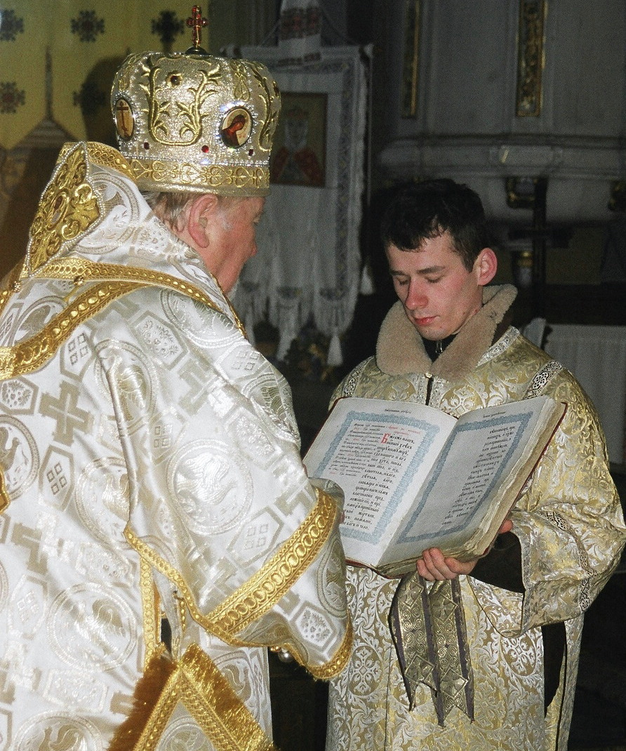 Orthodox Bishop celebrating the Great Blessing of Waters at Epiphany